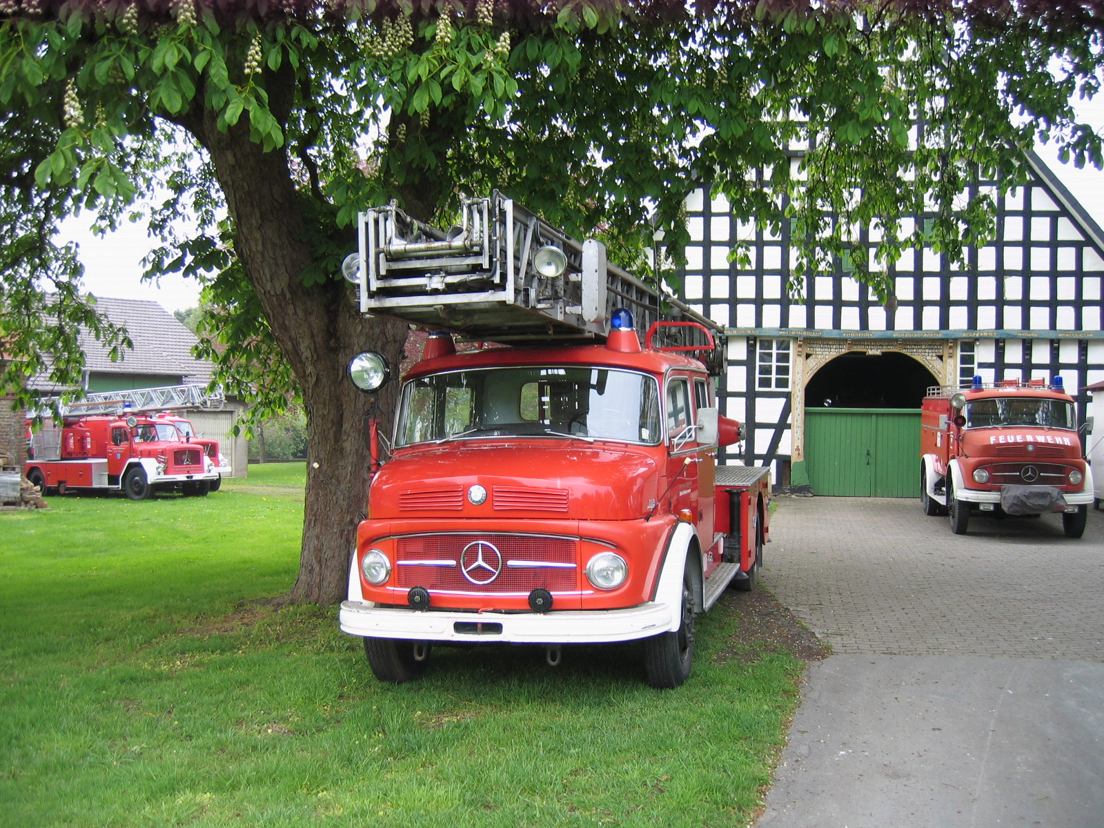 Museum of firefighting in Kirchlengern-Häver, County of Herford, North Rhine-Westphalia, Germany.